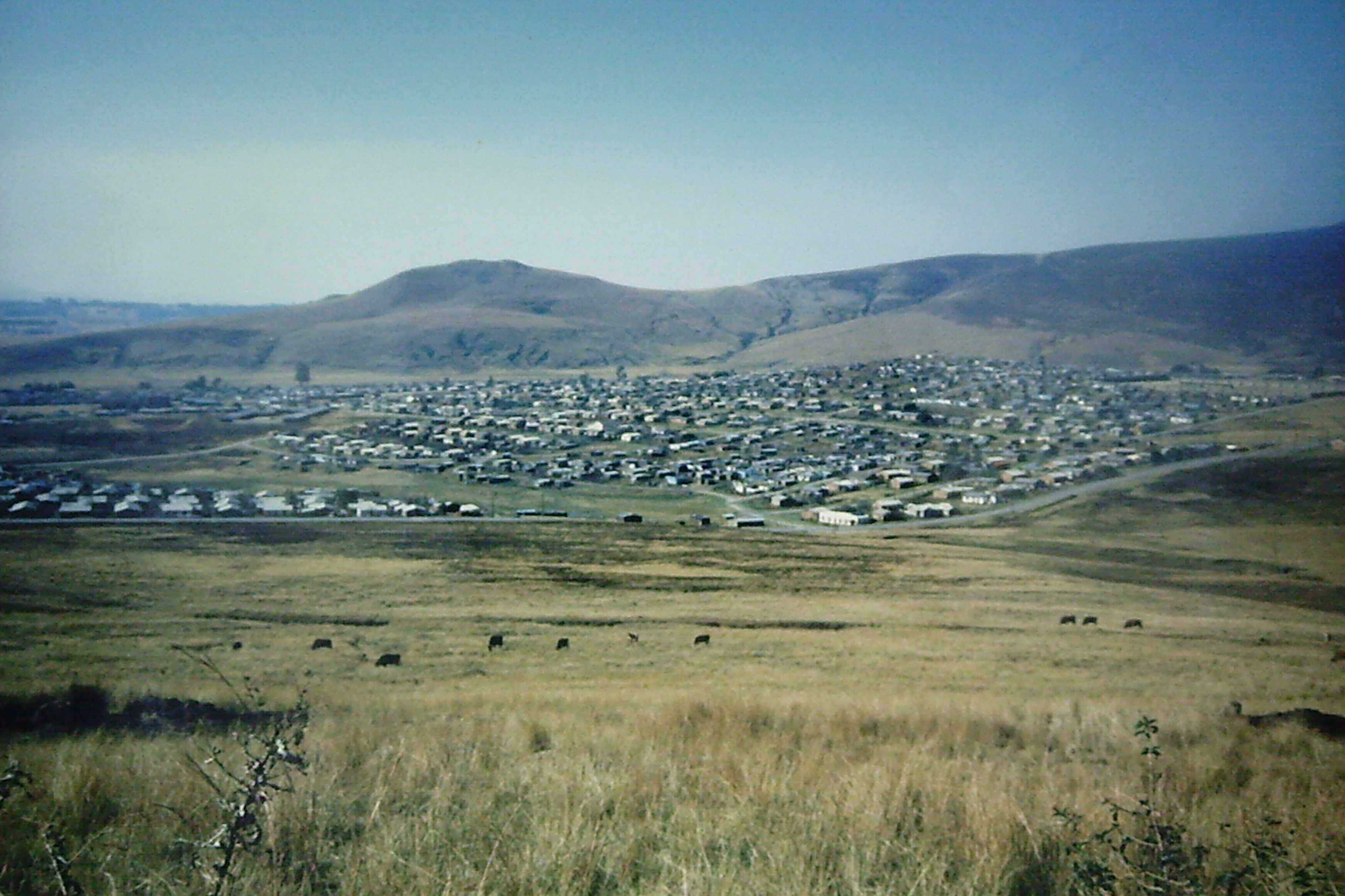 View of township